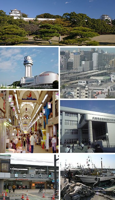 Akashi montage